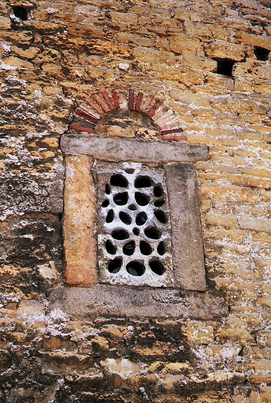 Church of San Julián de los Prados, Oviedo. Original window